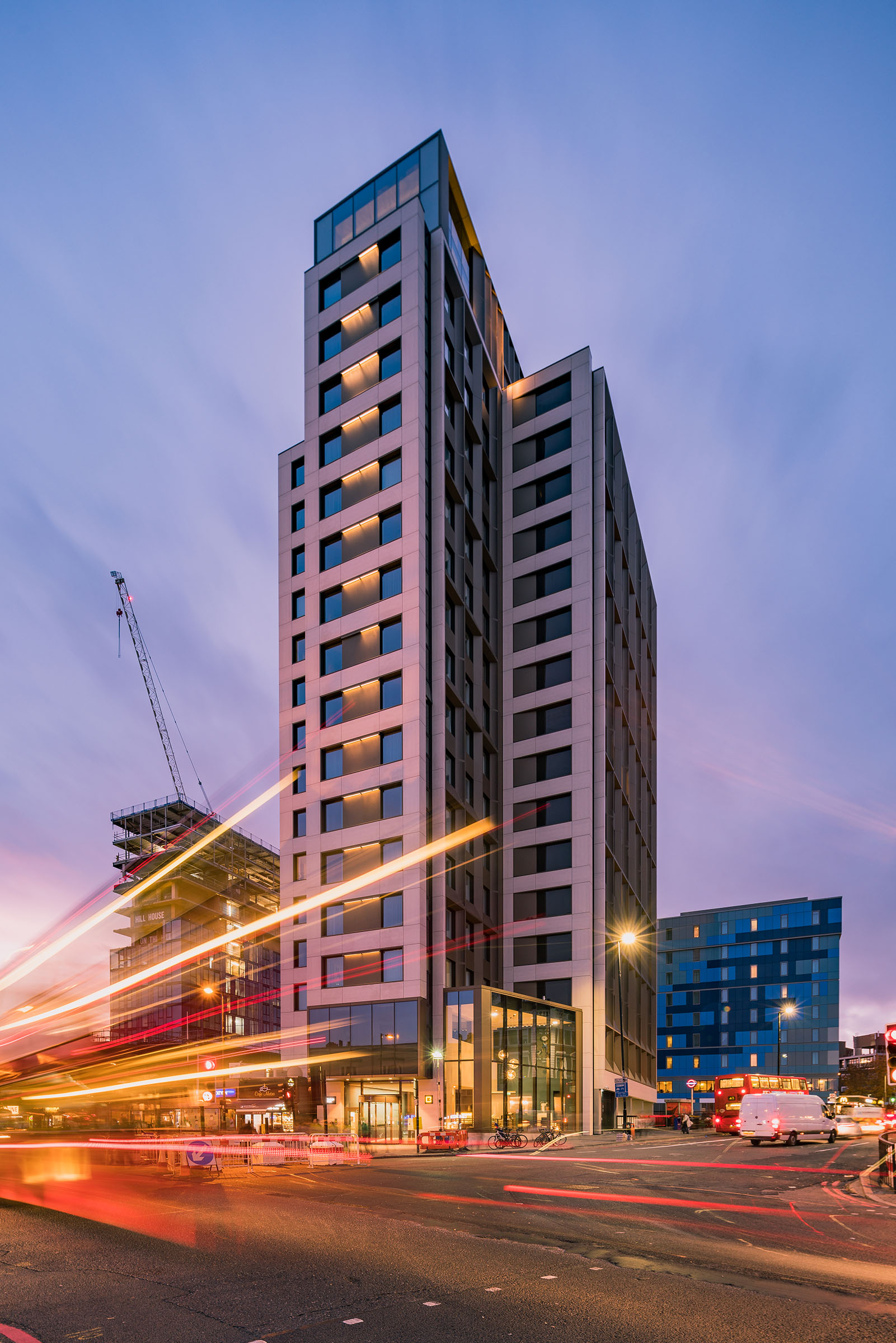 An external shot of Vantage Point in Archway.